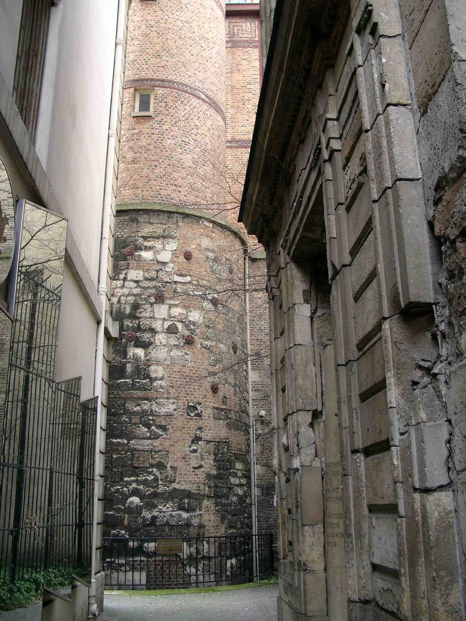 Paris, Remainung tower of the Philipp-Augustus city walls, rue de Francs-Bourgeois